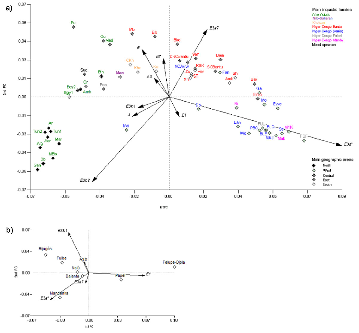 Principal Component Analysis for a) several African populations and b) Guinea-Bissau ethnic clusters, based on haplogroup frequencies. a) The 1st PC captures 42.6% of the variance and 16.9% are under the responsibility of the 2nd PC. For details on populational datasets see Additional file 2. The codes in italic refer to the following populations: Morocco Arabs: Ar [1,34], Mar [33]; Morocco Berbers: Bb [33], MBb [34]; Algeria: Alg [80], Aar-Algerian Arabs [35]; Tunisia-Tun1 [35], Tun2 [7]; West Sahara: Sah-Saharawis [33]; Egypt: Egy1 [35], Egy2 [7]; Sudan: Sud [2]; Ethiopia: Eth [2], Or-Oromo, Amh-Amhara [5,7]; Kenya: K&K-Kikiu & Kamba, Maa-Maasai [7]; Uganda: Gan-Ganda [7]; North Cameroon: Po-Podokwo, Mad-Mandara [7], Ou-Ouldeme, Daba [1,7,26], NCAdaw-Fali, Tali [1,26], Fca-Fulbe [1,26]; South Cameroon: SCBantu-Bassa, Ngoumba [7], Bak-Bakaka, [1,7], Bam-Bamileke [1,26], Ewo-Ewondo [1,26], Bko-Bakola Pygmies [7]; CAR: Bik-Biaka Pygmies [2,7]; DRC: DRCBantu-Nande, Herna [7]; Mb-Mbuti Pygmies [2,7]; Guinea-Bissau: EJA-Felupe-Djola, BJG-Bijagós, BLE- Balanta, PBO-Papel, FUL-Fulbe, MNK-Mandenka, NAJ-Nalú (Present study); Burkina Faso: Mo-Mossi [1,26], Ri-Rimaibe [1,26], FBF-Fulbe [1,26]; Gambia/Senegal: Wo-Wolof [7], Mak-Mandinka [7]; Mali: Mal [2], Do-Dogon [7]; Ghana: Ewe, Ga, Fan-Fante [7]; Senegal: Se [5]; Namibia: Her-Herero, Amb-Ambo [7], Ku-!Kung, Sekele [1,7,26], CKh-Tsumkwe San, Dama, Nama [7]; South Africa: ST-Sotho-Tswana, Zu-Zulu, Xh-Xhosa, Sh-Shona [7], Kho-Khoisan [2]. b) The PCA captures 87.0% of the variance with 74.0% and 13.0% attributed to the 1st and 2nd PC, respectively. The 1st PC reflects an axial proportion of E3a* vs. E1* where Papel and Felupe-Djola retain the higher proportions of the later. E3a* is again a main influence in the 2ndaxis against that of R1b and E3b1, placing Mandenka apart from Bijagós and Fulbe.